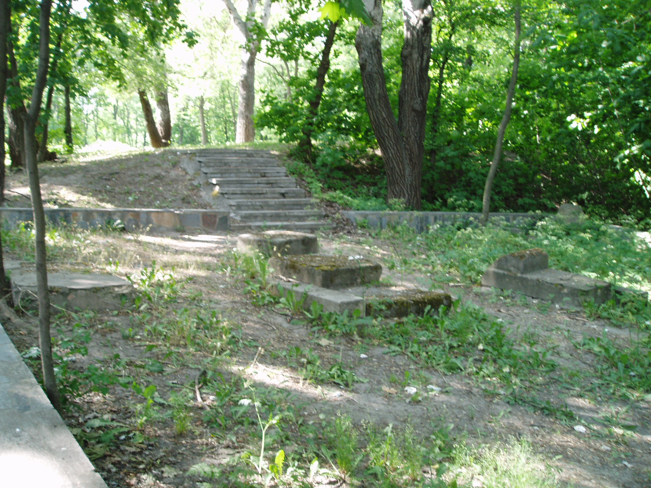 The remnants of the Jewish cemetery in Kyiv